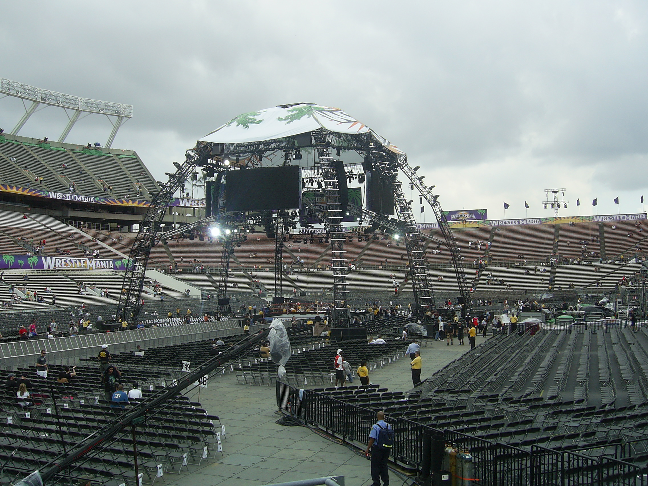 Citrus Bowl, Section 139Wrestlemania from Section 139